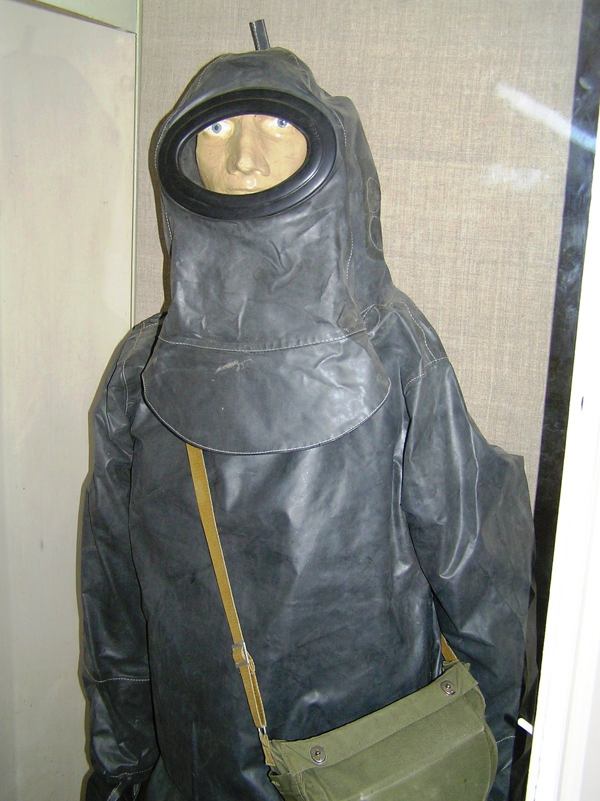 Protective clothing at the Strategic Missile Forces Museum in Ukraine.